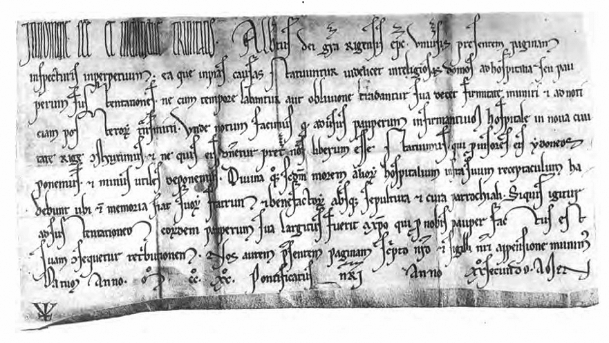 Deed showing Albert, Bishop of Riga, established a hospital for the poor sick in Riga. 1220. Original, parchment, with incisions for the press and with the prominent sign of Albert in the left corner. The original is 170 mm high and 308 mm wide.